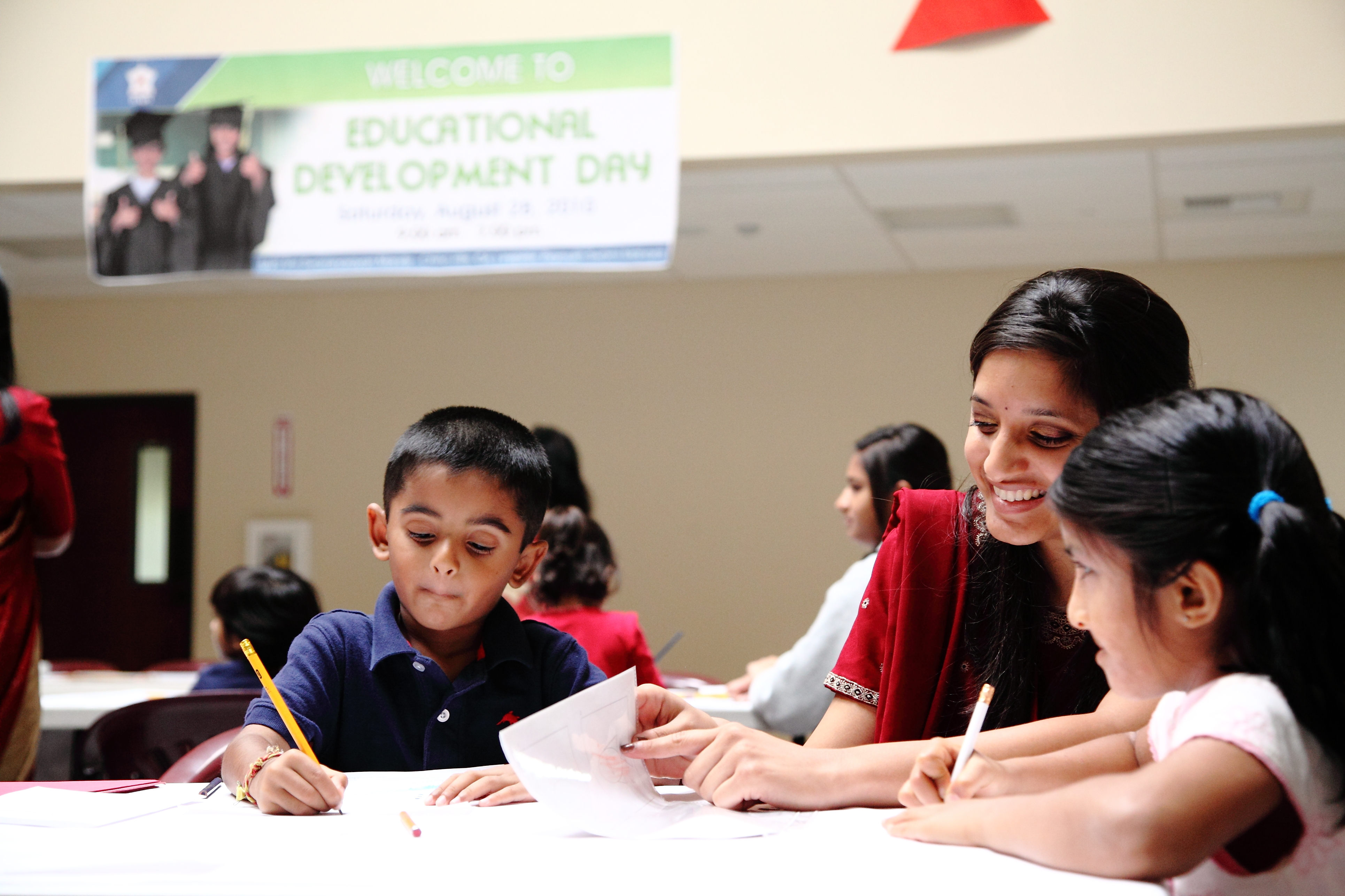 BAPS Charities Education Development Drive